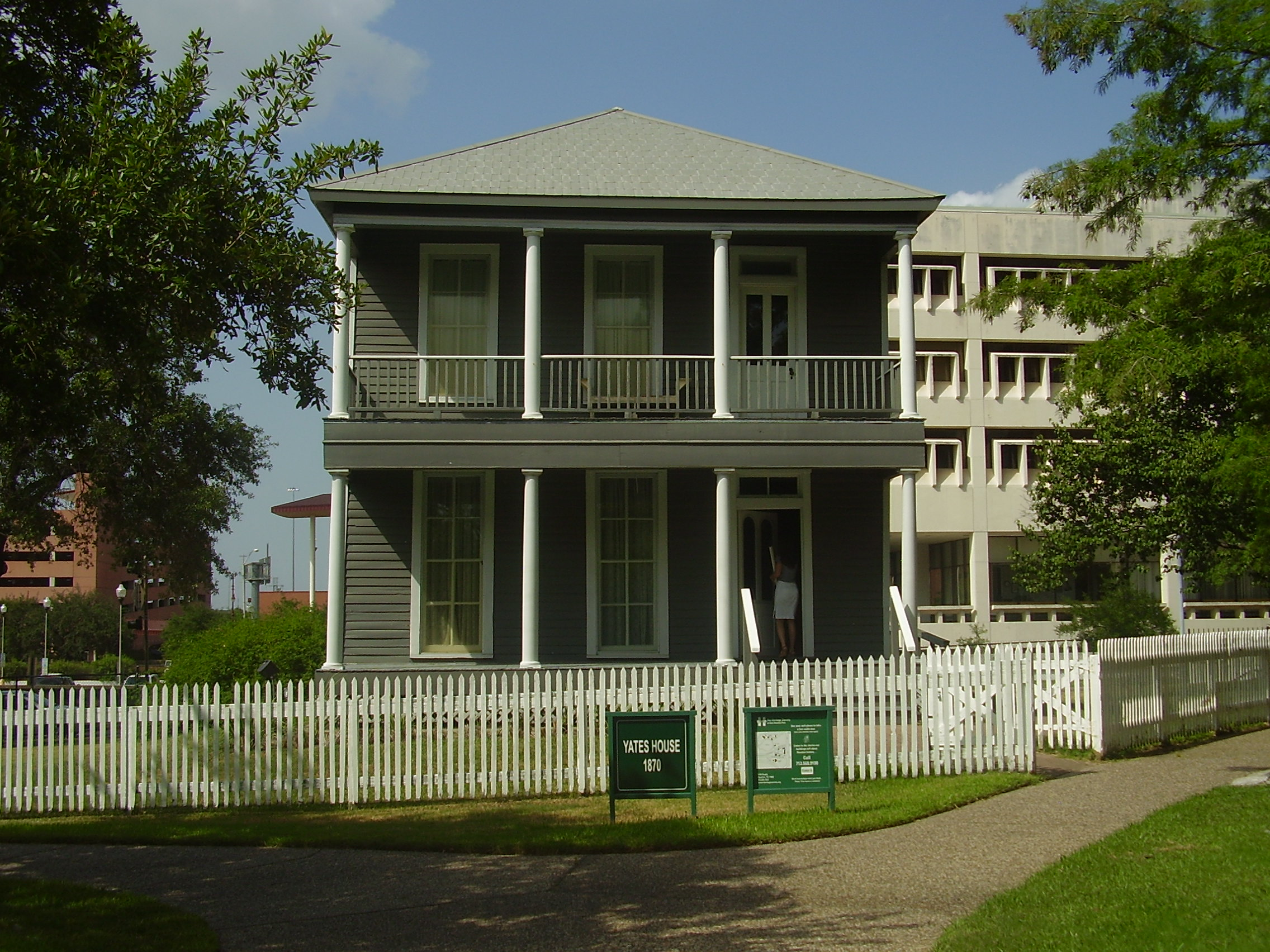 Jack Yates House - 1870 - Originally located in the Fourth Ward, it was moved to Sam Houston Park, and opened to the public in 1996